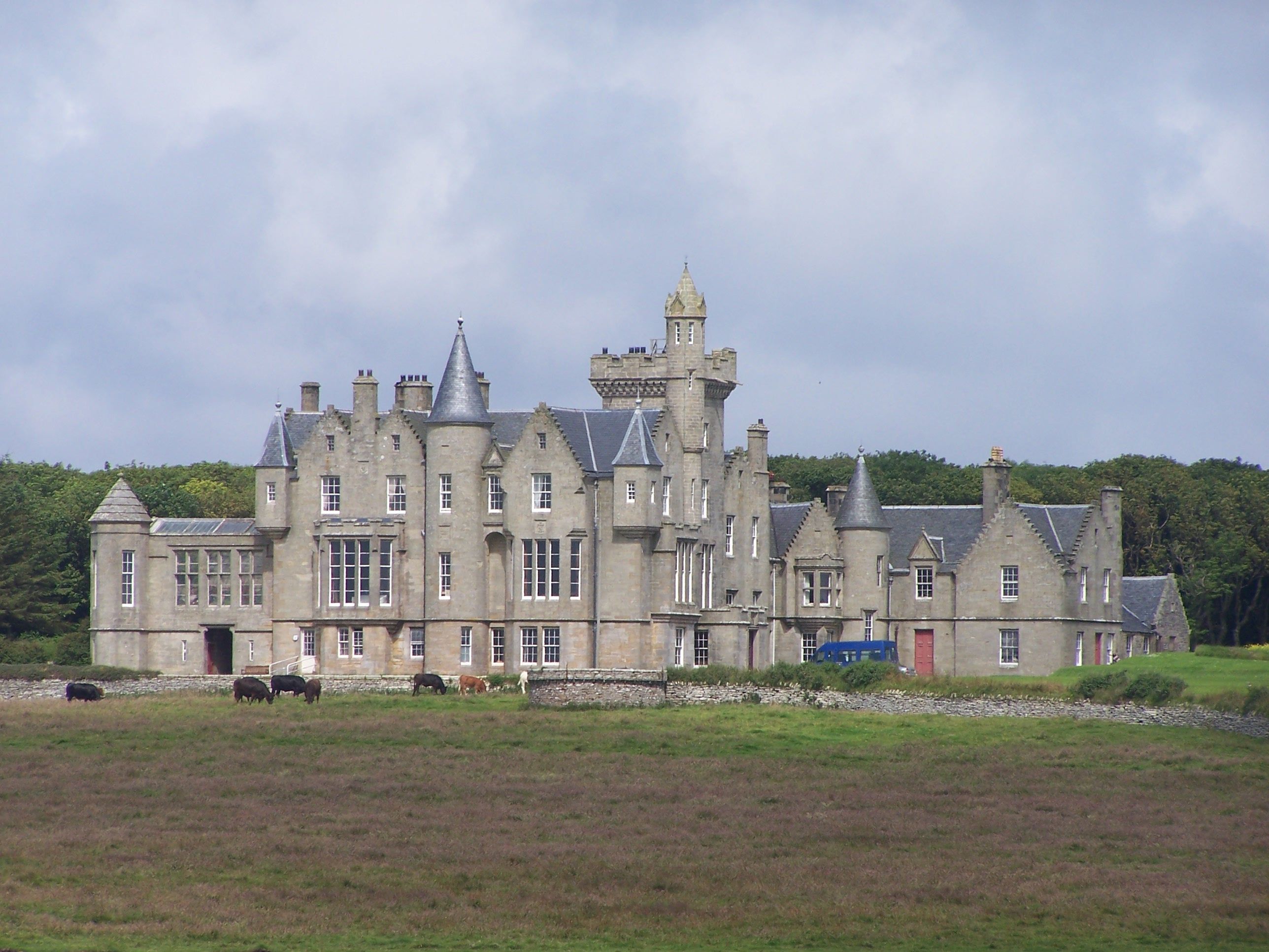 Photograph of Balfour castle on Shapinsay, taken from the ferry.